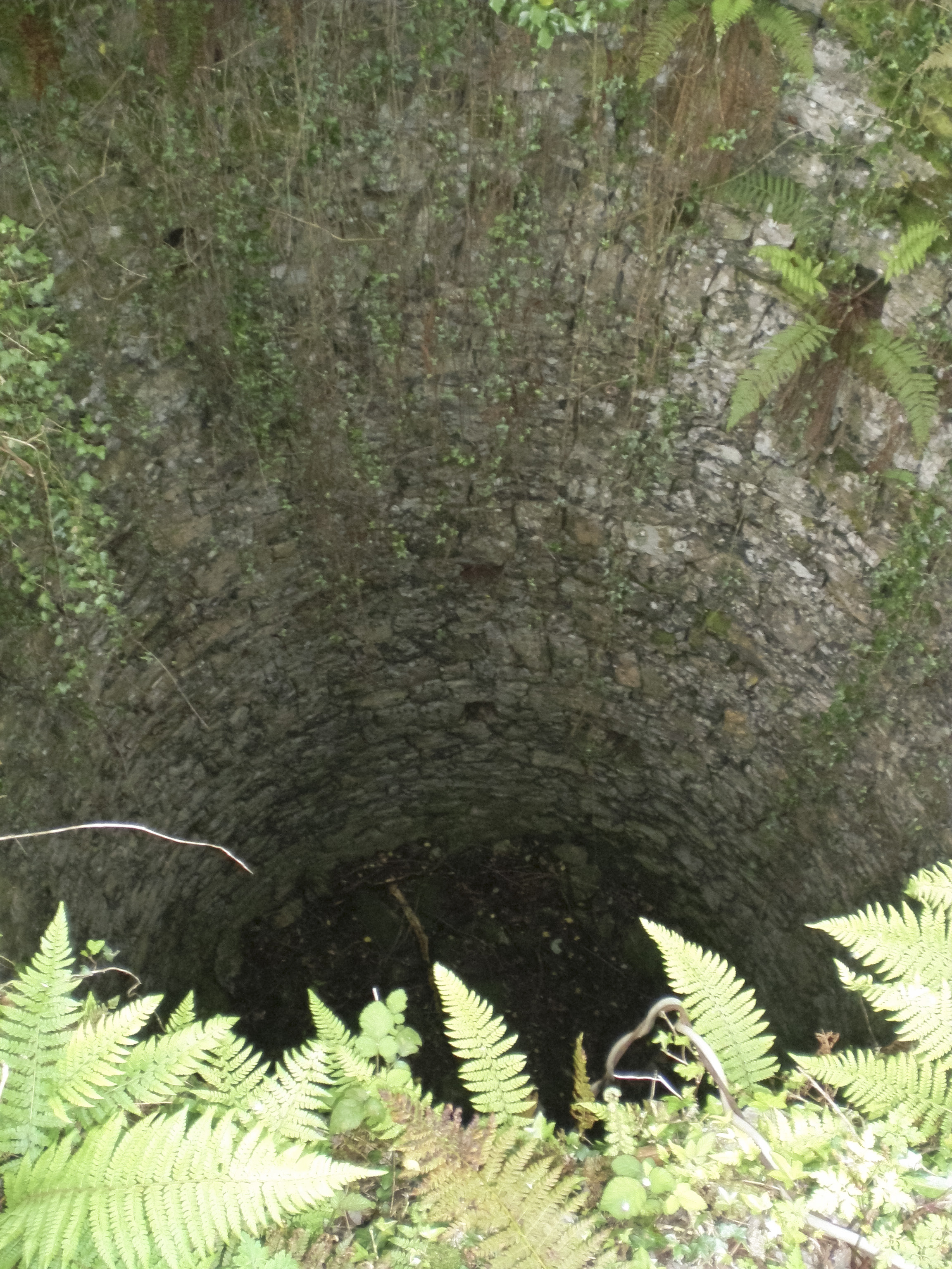 Pozo de nieve del monte Naranco, en Oviedo, España